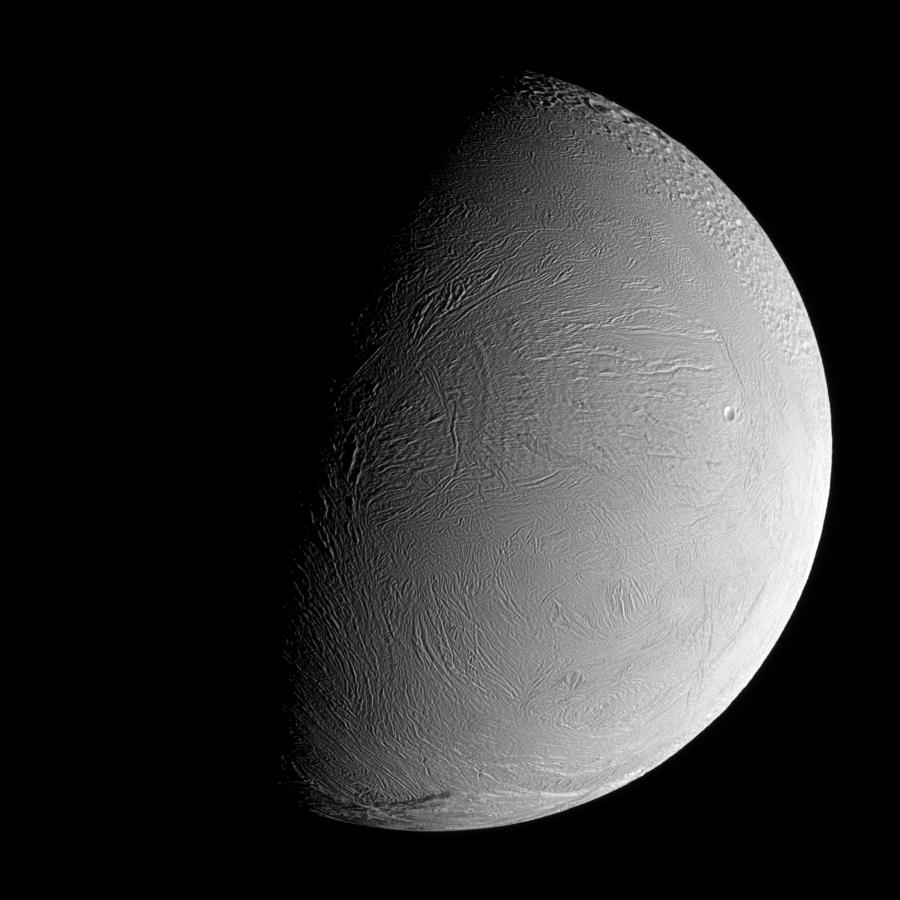 Original Caption Released with Image: During a distant flyby encounter with Enceladus, Cassini imaged the moon's wrinkled leading hemisphere. At the scale visible here, this region of the surface is generally devoid of impact craters, suggesting that the terrain has been modified and renewed during the moon's history. To the north lies a heavily cratered and presumably older region. The sinuous boundary of the geologically active south polar region is seen at bottom. North on Enceladus (504 kilometers, 313 miles across) is toward the top of the image. The image was taken in visible green light with the Cassini spacecraft narrow-angle camera on Sept. 30, 2007. The view was acquired at a distance of approximately 108,000 kilometers (67,000 miles) from Enceladus and at a Sun-Enceladus-spacecraft, or phase, angle of 75 degrees. Image scale is 644 meters (2,111 feet) per pixel. The Cassini-Huygens mission is a cooperative project of NASA, the European Space Agency and the Italian Space Agency. The Jet Propulsion Laboratory, a division of the California Institute of Technology in Pasadena, manages the mission for NASA's Science Mission Directorate, Washington, D.C. The Cassini orbiter and its two onboard cameras were designed, developed and assembled at JPL. The imaging operations center is based at the Space Science Institute in Boulder, Colo. For more information about the Cassini-Huygens mission visit The Cassini imaging team homepage is at